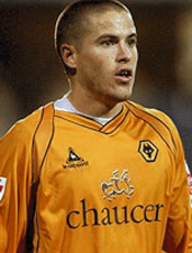 An image of Kightley from photo from camera.